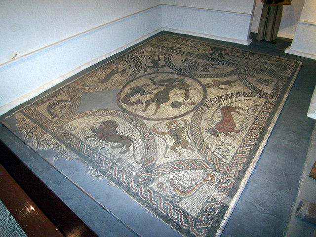 Rudston Venus Mosaic now in Hull, East Riding of Yorkshire, England.The Roman Villa at Rudston was discovered in April 1933 by a Mr. Henry Robson of Breeze Farm, he was ploughing a large field on the south side of the Rudston to Kilham road. This mosaic is now in the Hull & East Riding Museum.